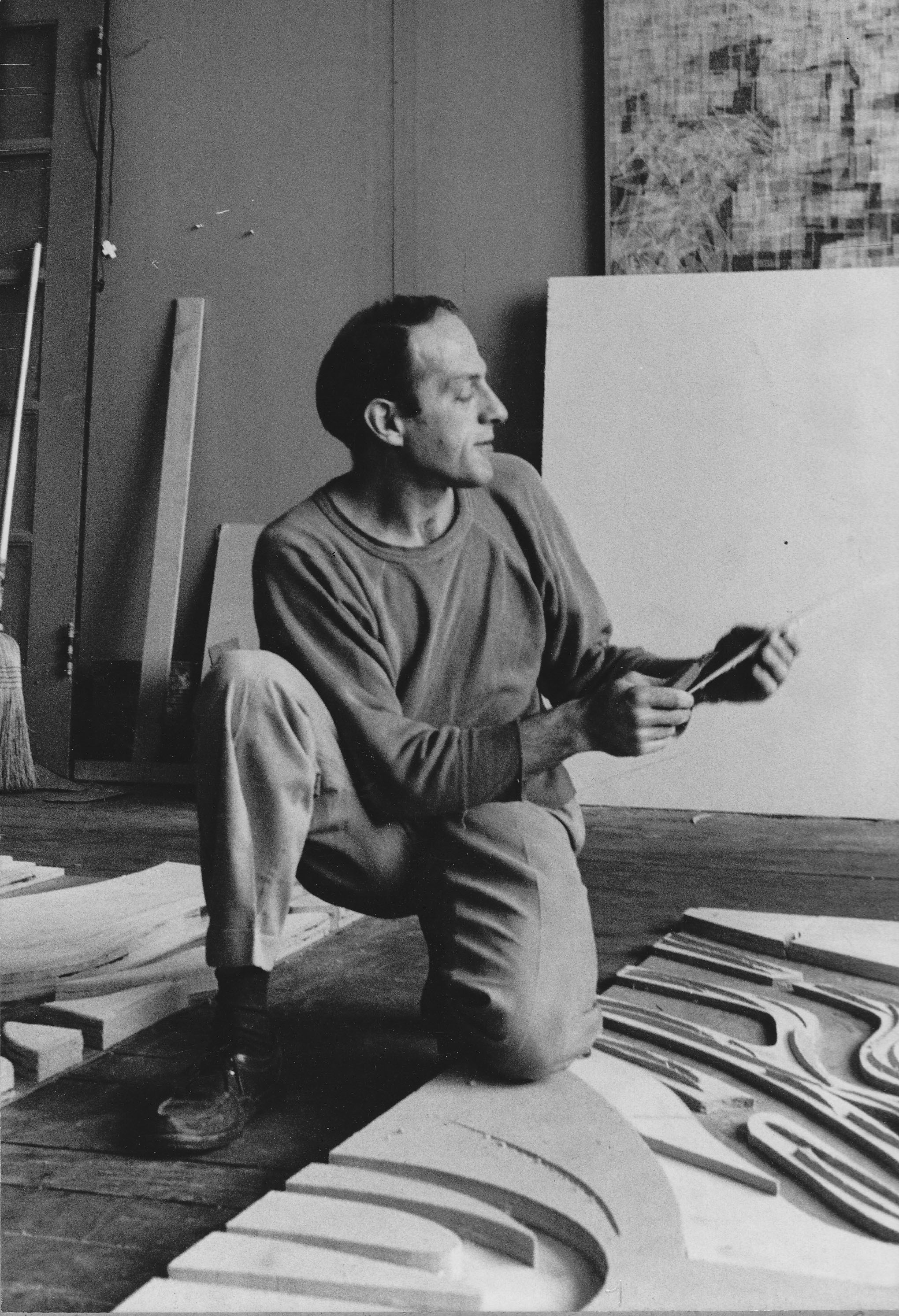 Byron Randall working on mold for Emmy Lous’ mural. Student Union Building, Berkley.